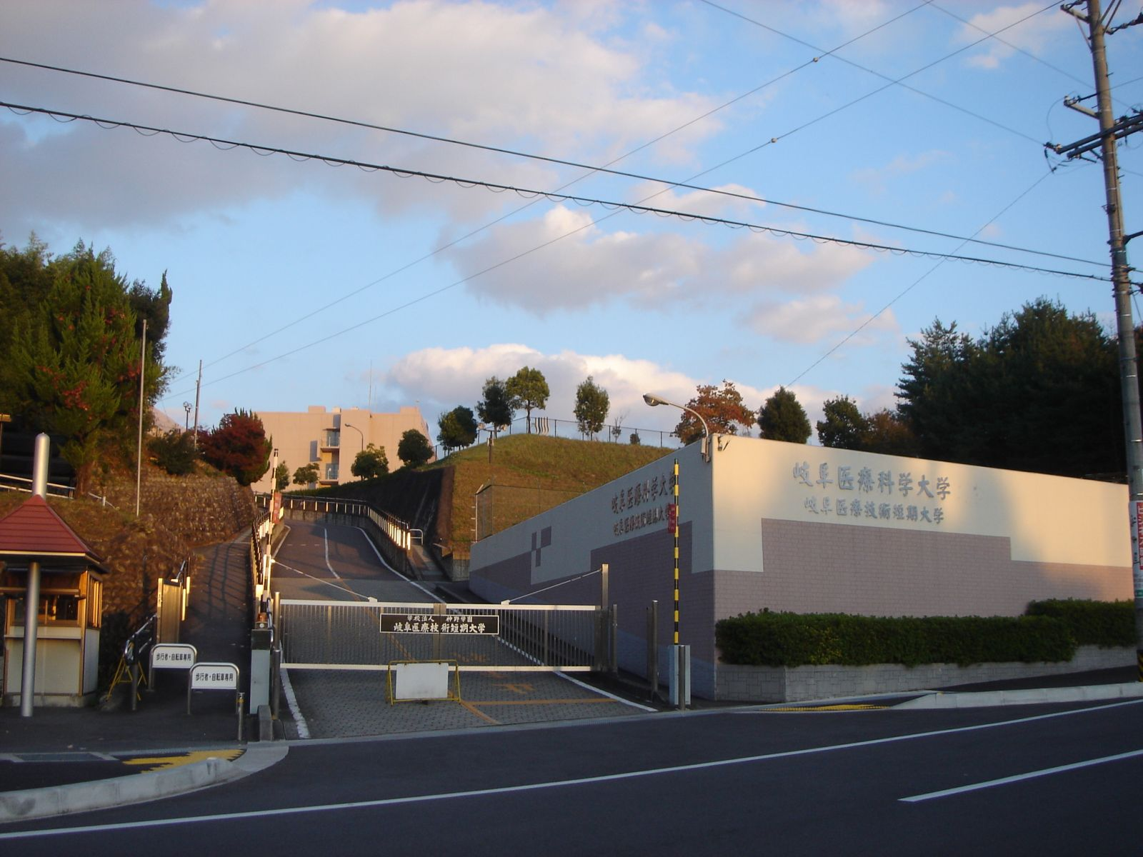 Gifu University of Medical Science（岐阜医療科学大学）,Seki,Gifu,Japan(岐阜県関市)で撮影。